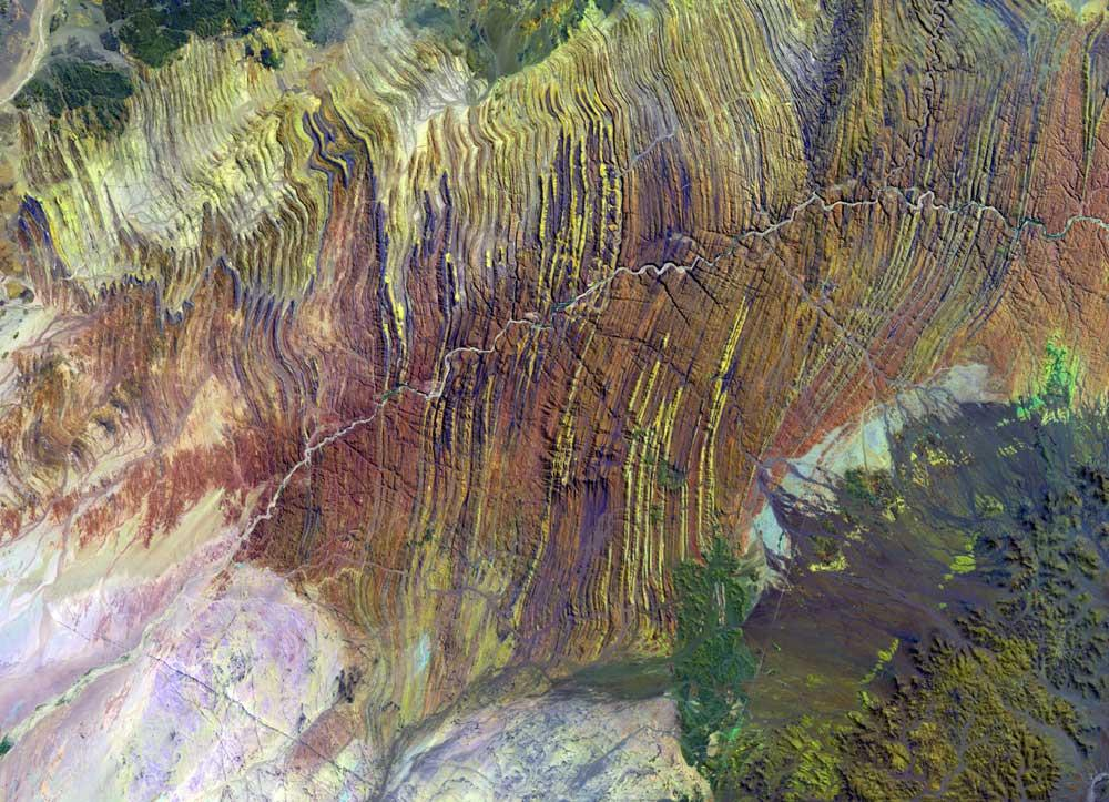 False color satellite image of a part of the Ugab River valley, Namibia. – The Ugab river is an ephemeral river that only flows above the surface of its sandy bed a few days each year, but its subterranean water is an important resource for species in the Damaraland region of northern Namibia, including the rare desert elephant. This contrast-enhanced false color image has the Landsat band combination 7-5-4, which means that the red (3), green (2), and blue (1) bands that comprise true color images are replaced by two mid-infrared (7 and 5) and one near-infrared (4) bands. This band combination is appropriate for mapping the surficial geology. The Ugab River here crosses the outcrop of a geological unit which is called “Zerrissene Turbidite System”. It is made up of folded, low grade metamorphosed Neoproterozoic sedimentary rocks which can be subdivided into 5 formations.[1] Most of these formations are quite good identifiable in the false color image: The Zebrapüts Formation (greyish to yellowish), the Brandberg West Formation (a thin violet band, too thin to be clearly visible in the western part of the area, but apparently with larger outcrop area in the east due to very narrow folding), the Brak River Formation (yellowish to dark brown), the Gemsbok River Formation (the broader violet bands), and the Amis River Formation (orange to reddish-brown). The yellowish, brownish and reddish colors are indicative of siliciclastic rocks (claystones and sandstones, incl. “greywacke”) while violet is indicative of carbonates.